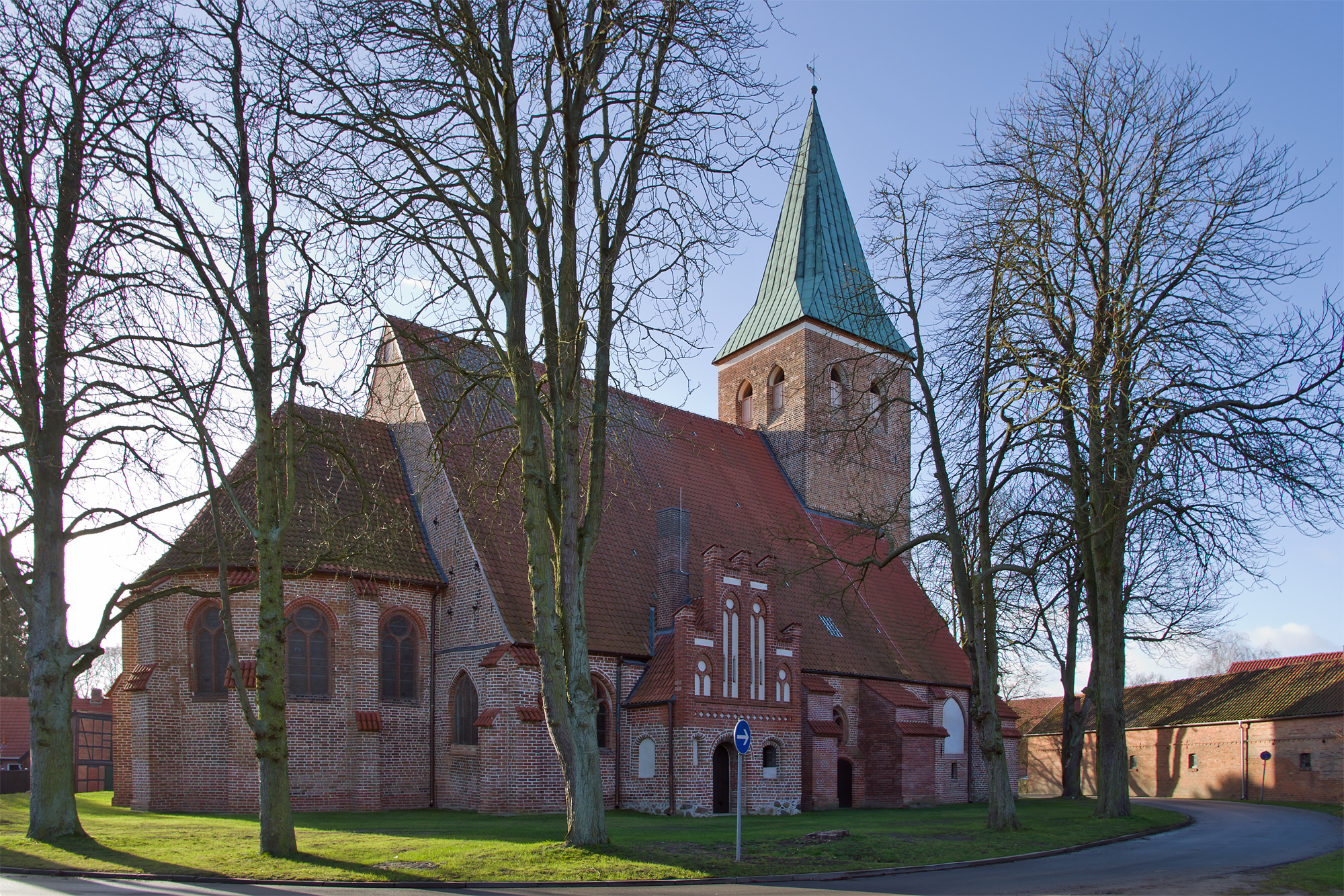 Church of the small village Plate near Lüchow (district Lüchow-Dannenberg, northern Germany).